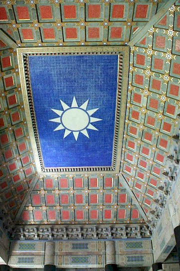 Taken by author